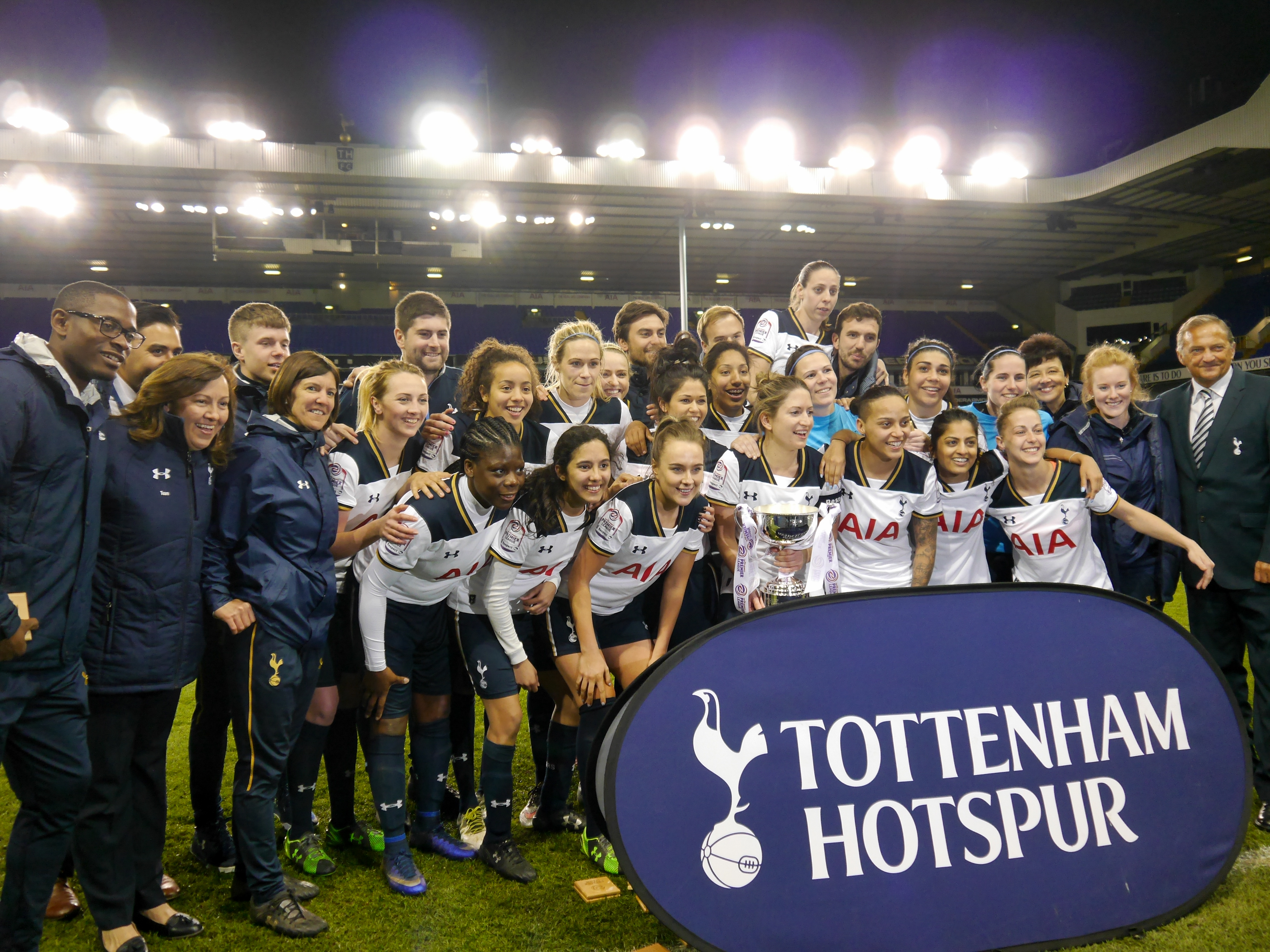 Tottenham Hotspur LFC v West Ham United LFC, 19 April 2017